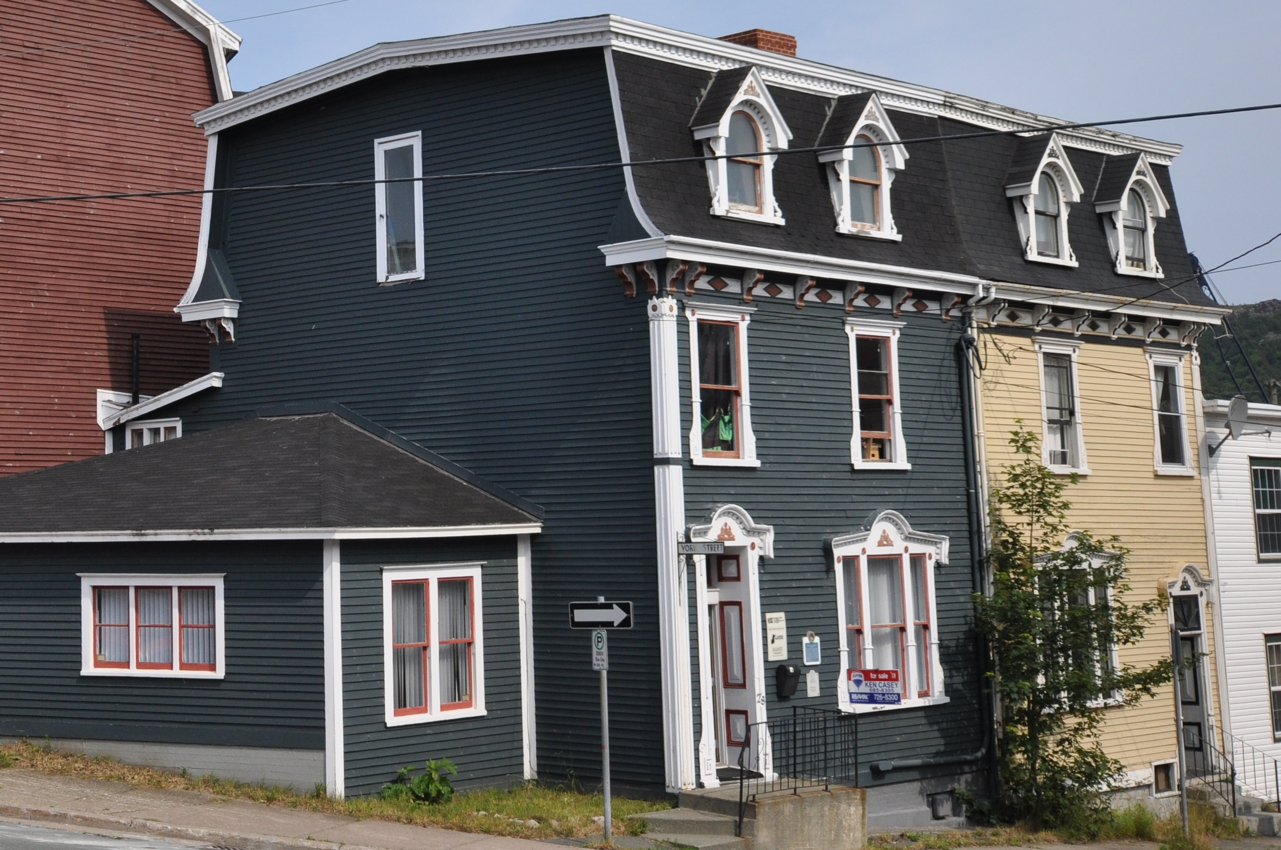 028 Cochrane Street, St. John's, Newfoundland.